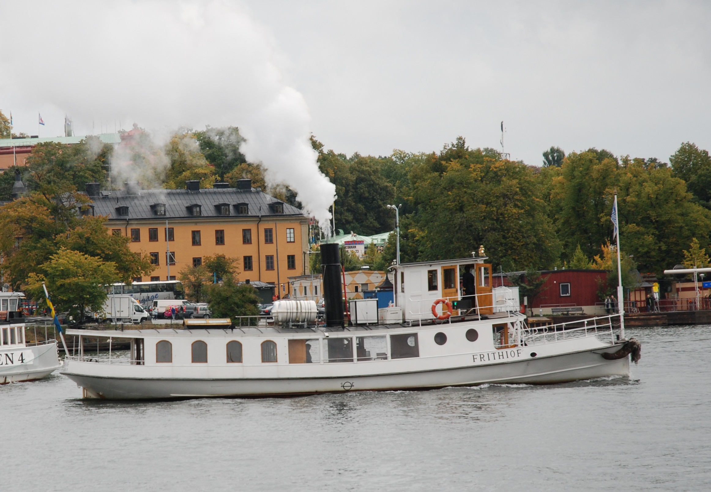 S/S Frithiof in front of the island of Djurgården, Stockholm, September 9, 2007.